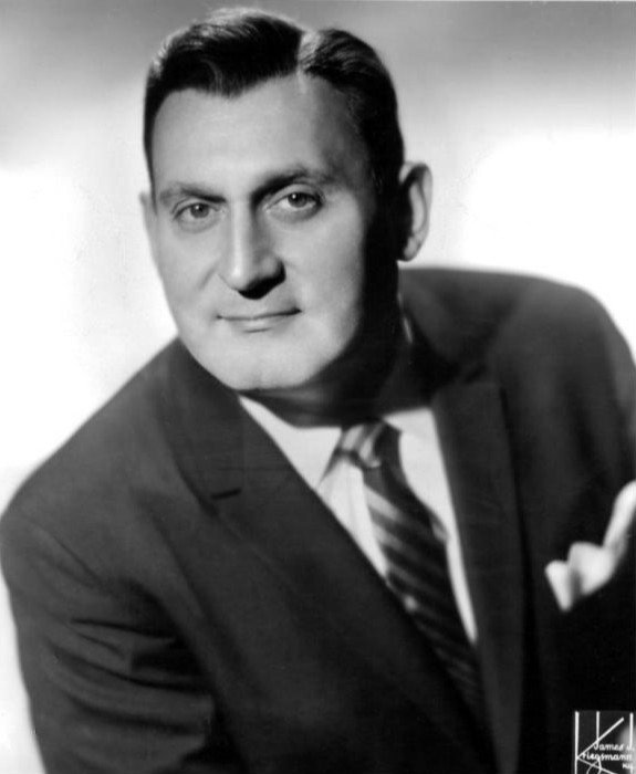 Publicity photo of Richard Tucker.